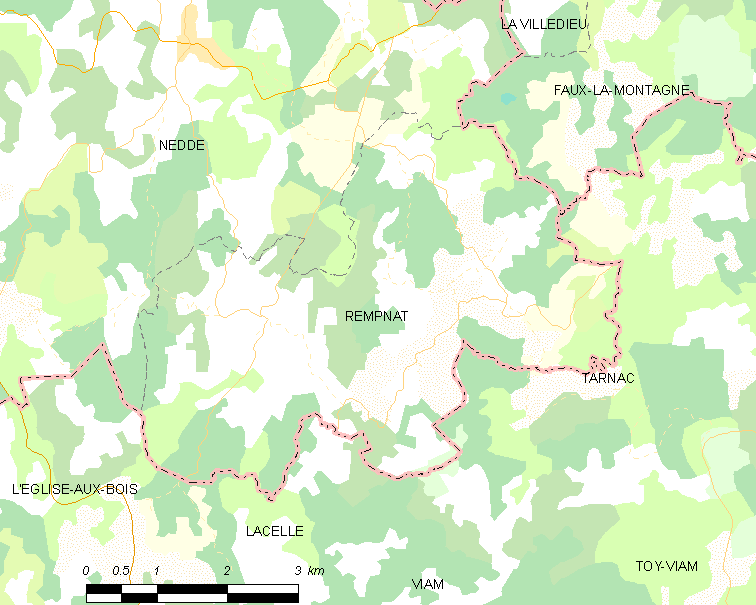 Map of French municipality Rempnat